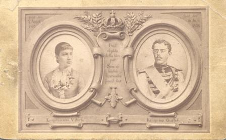 Victoria of Baden and Gustav V of Sweden